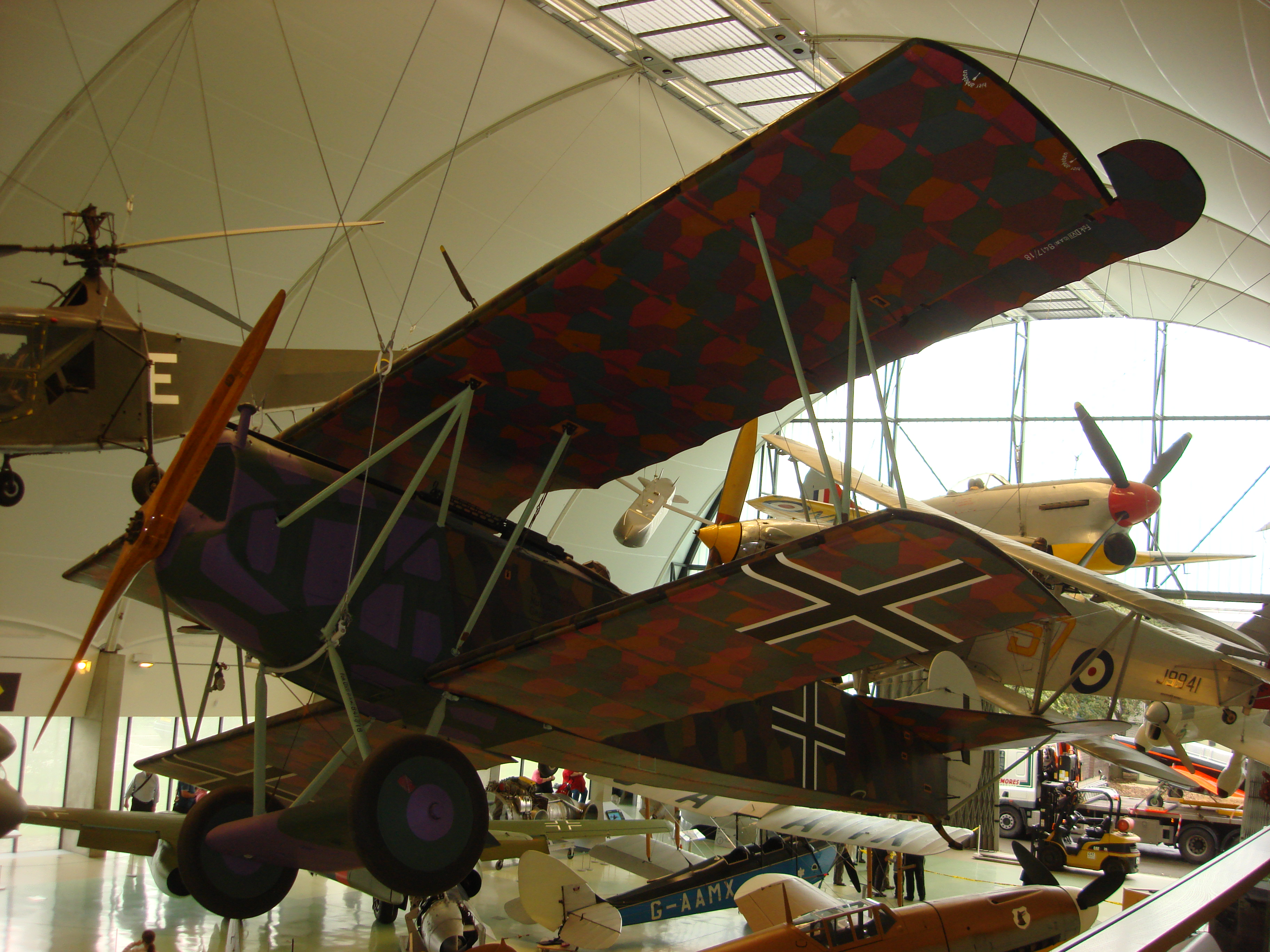 Fokker DVII at the RAF Museum, London.